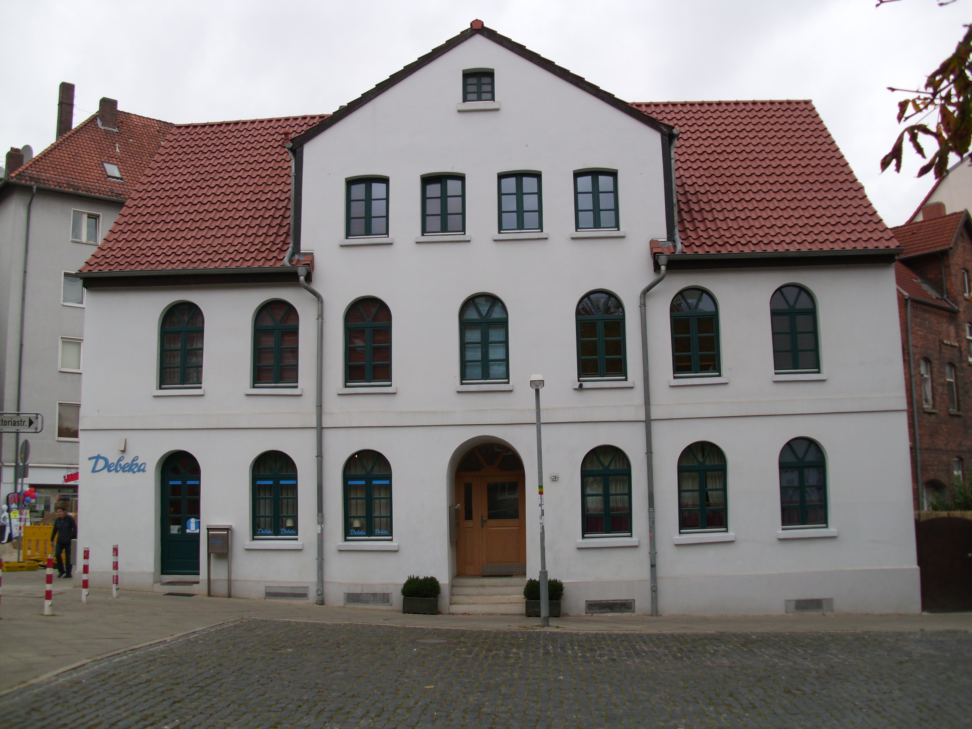 Building Hannover (Lower-Saxony, Germany), Viktoriastr. 20. Protected as heritage.